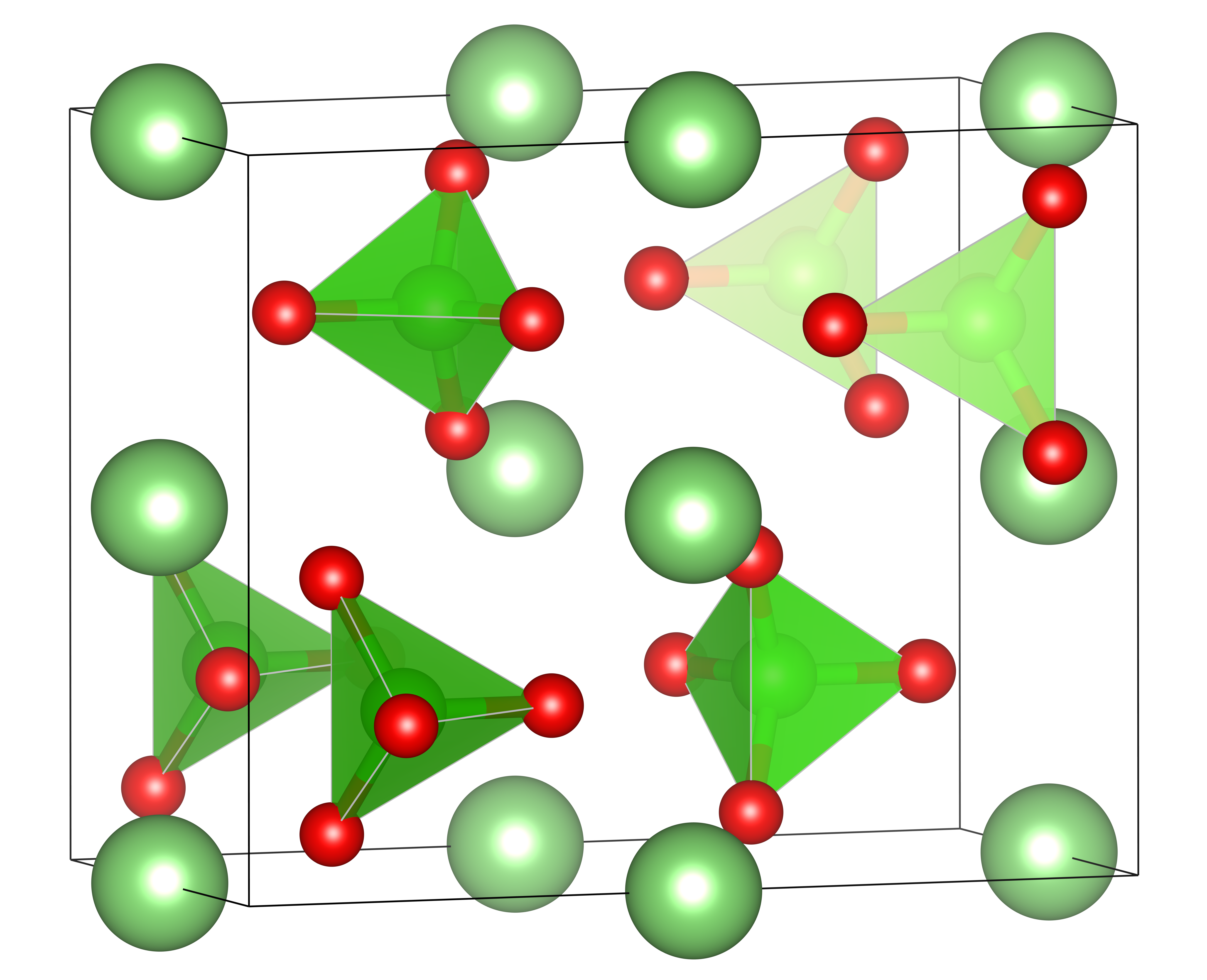 Unit cell of lithium perchlorate (LiClO4). Created with VESTA. Source of crystal structure: According to the paper the structure is furthermore valid for the high temperature modification of MgSO4, β-InPO4, Zincosite and Chalcocyanite.